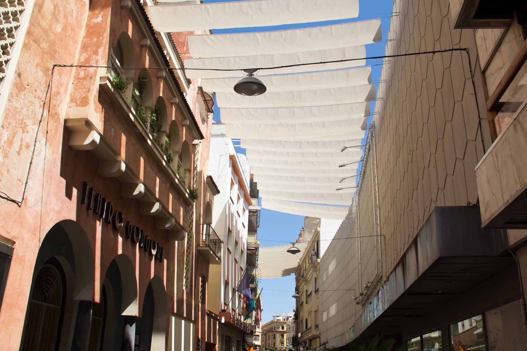 A view of the Jesús María street in Corduba (Spain) in July 2015. On the left : the front of the Góngora theater. Up : protective veils against the sun.